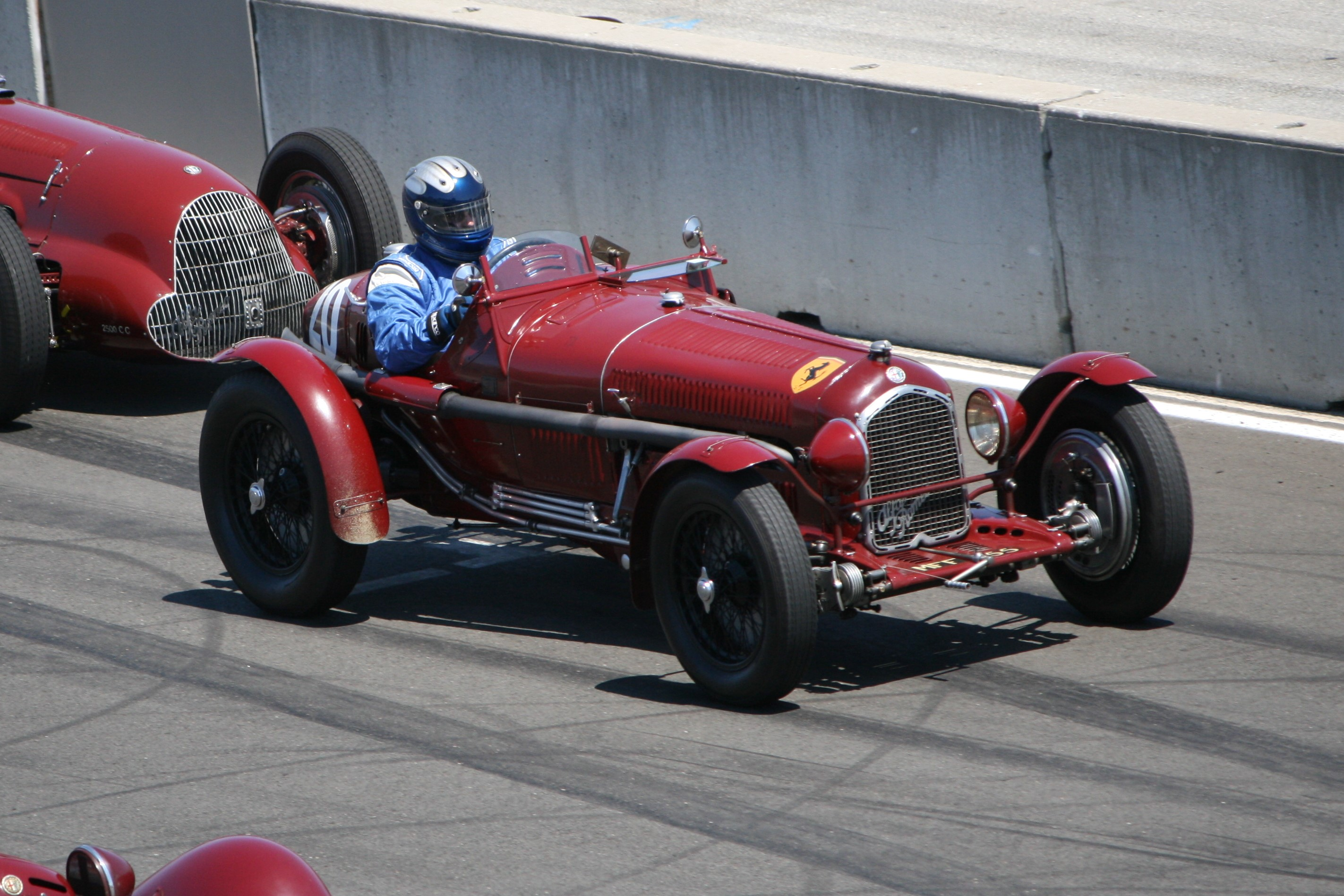 Alfa Romeo Tipo B P3 Biposto 1934 on track at Rolex Monterey Motorsports Reunion in 2008